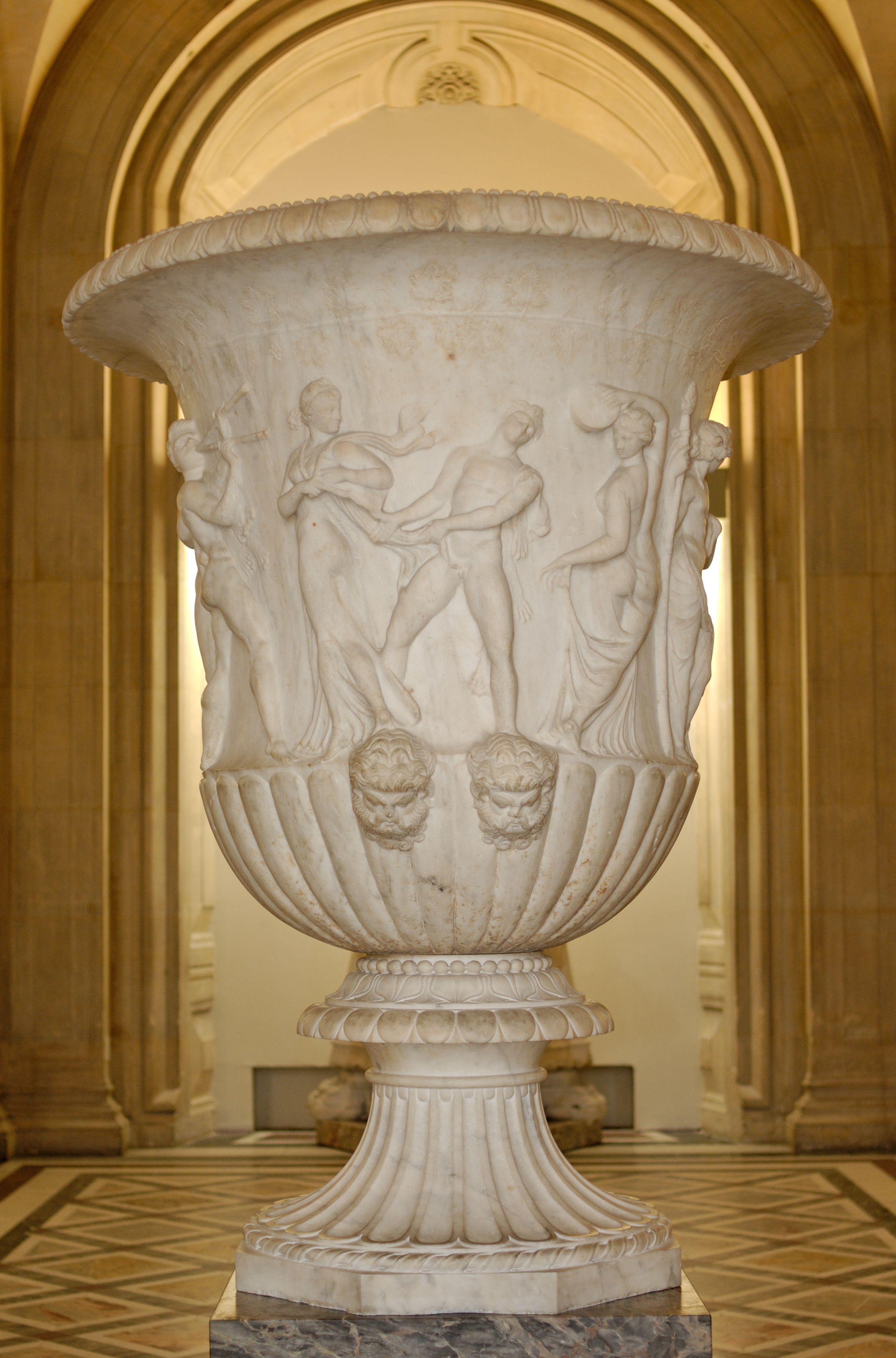 So-called “Borghese Vase”. Pentelic marble, Attic work, ca. 40–30 BC. The foot is a moderne restauration; the lost handles were carved into sileni masks. Found in 1569 in the Horti Sallustiani, Rome.